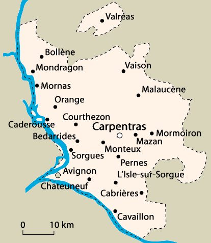 Limits of Comtat venaissin in France